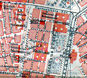 Part of a city map of Vienna, published in 1897, showing city hall (Rathhaus) and surroundings inkluding the square behind city hall called Friedrich-Schmidt-Platz since 1907